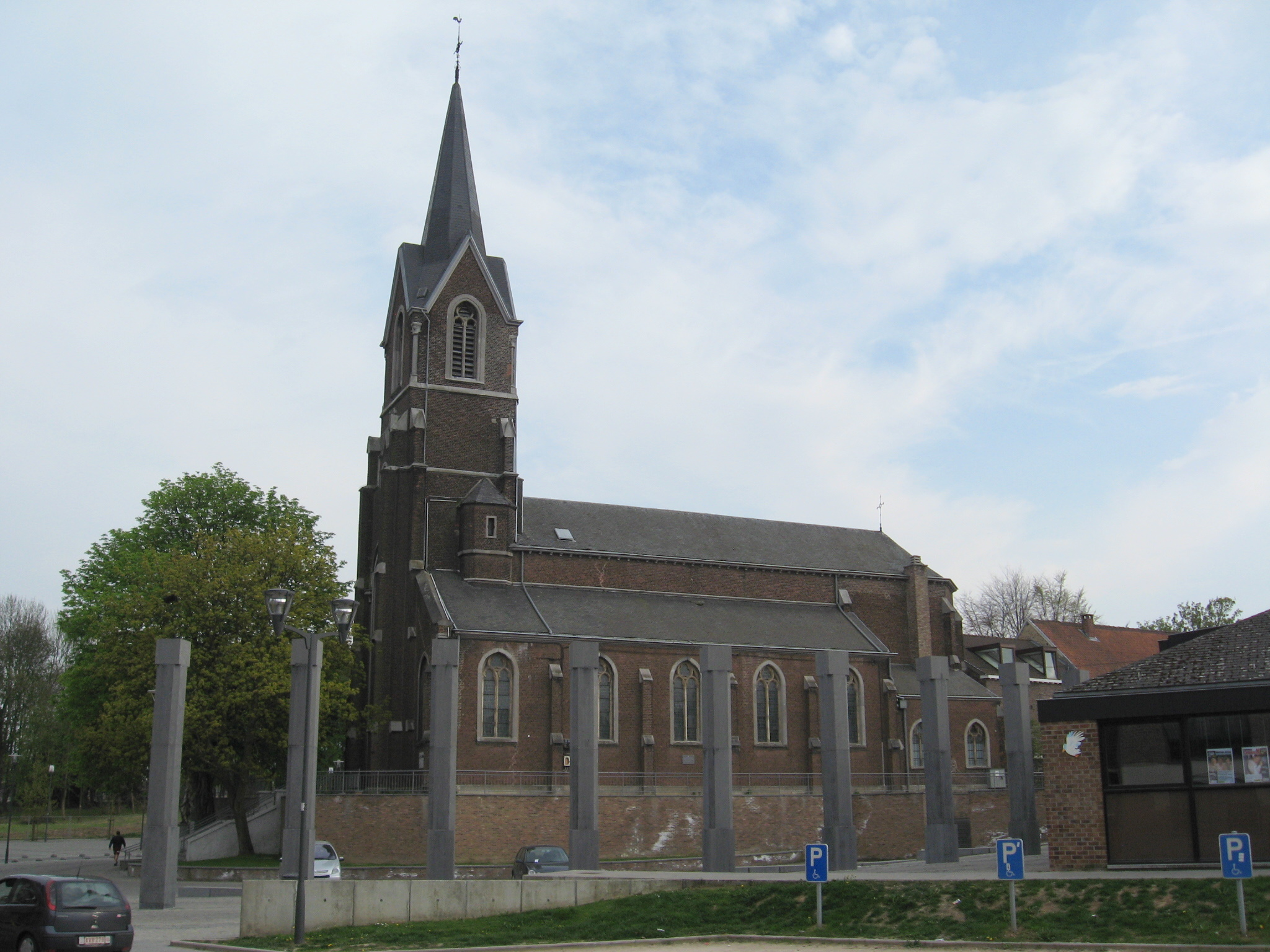 Church of Saint Remigius in Alleur, Ans, Liège, Belgium